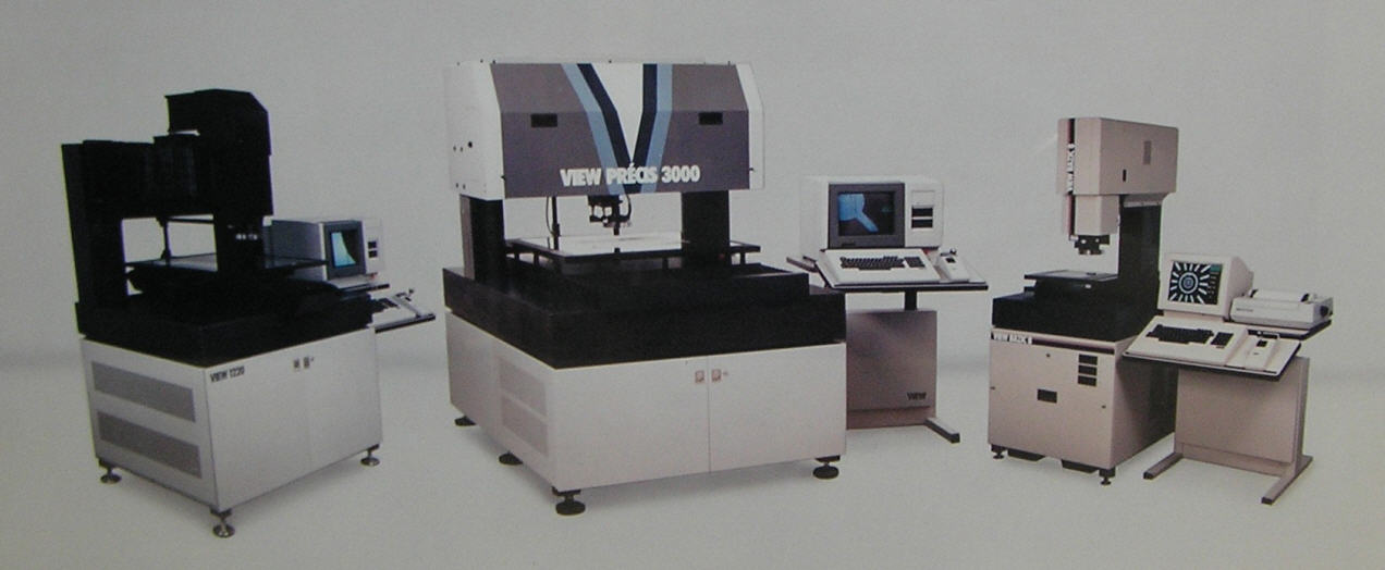 VIEW Engineering, Inc. 1220, Précis 3000 & Bazic 8 machine vision-based Coordinate Measurement Machines.